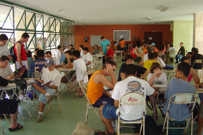 RPG boards - X RPG Meeting - Viçosa (MG) Brazil